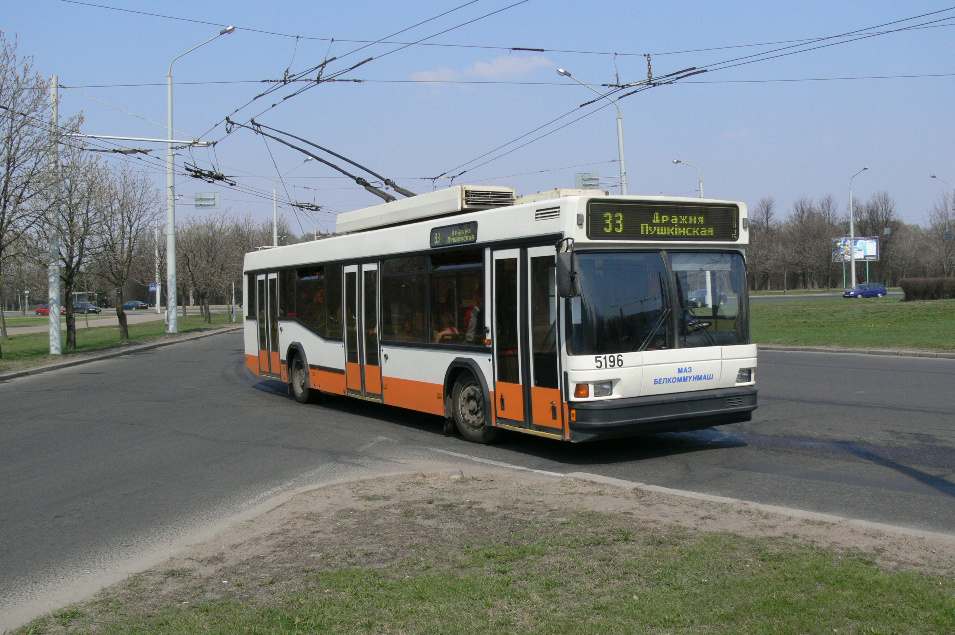 Buelorussian trolleybus MAZ-103t in Minsk